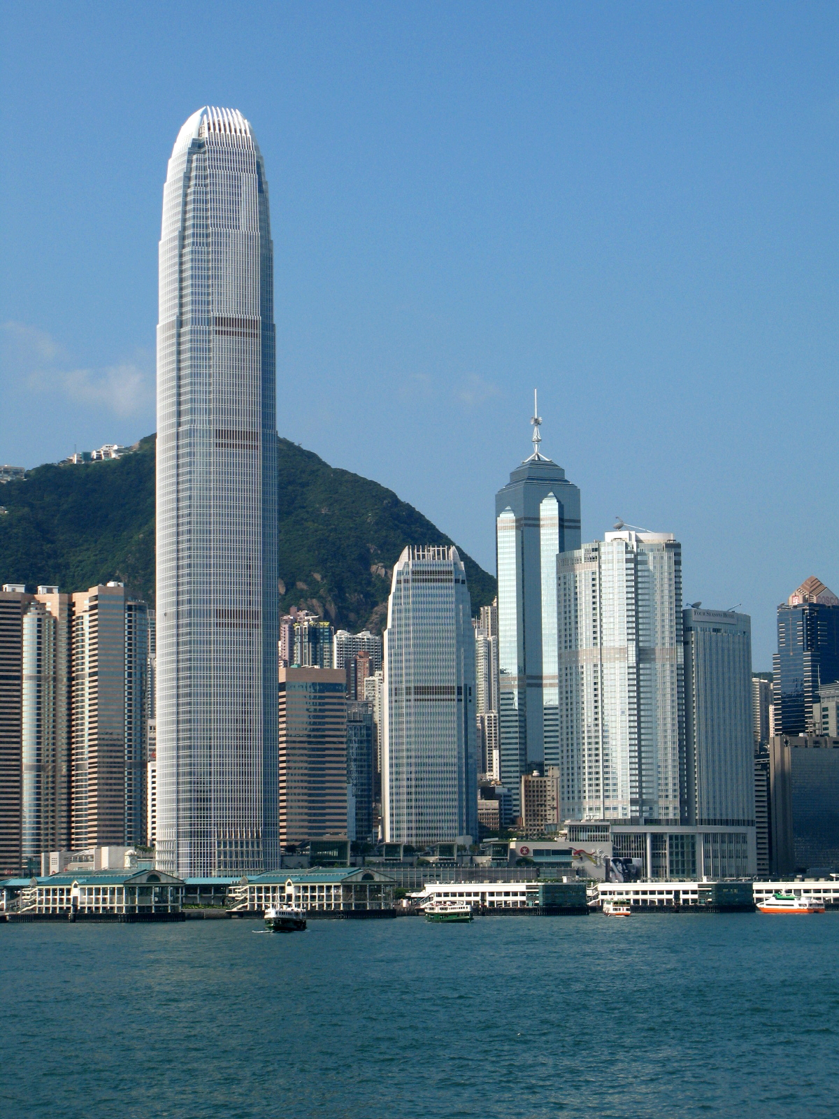 HK International Finance Centre 國際金融中心 (香港)